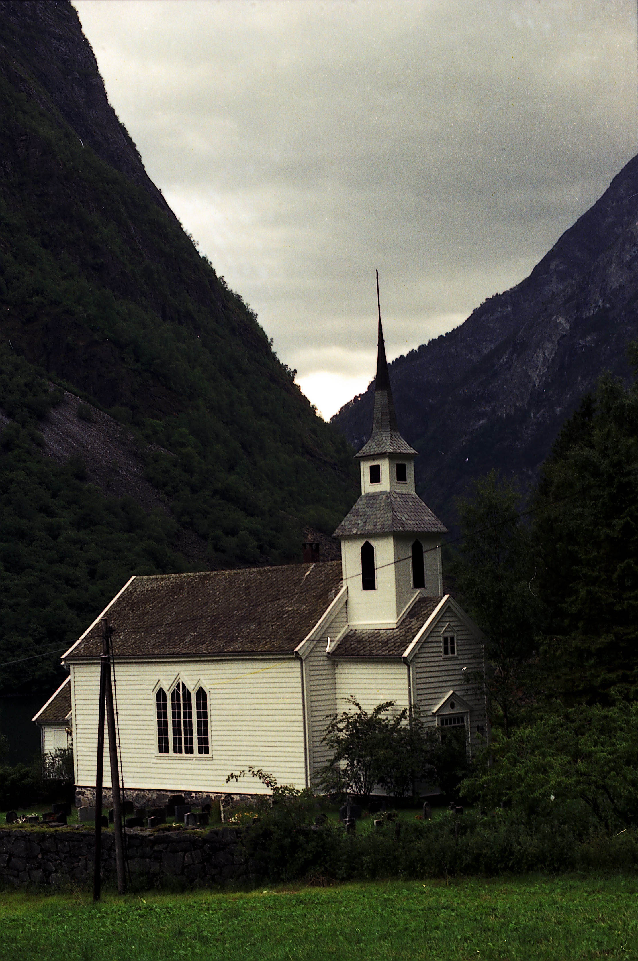 Country church in Sogn, Norway. Photography by Leif Knutsen, 1989.